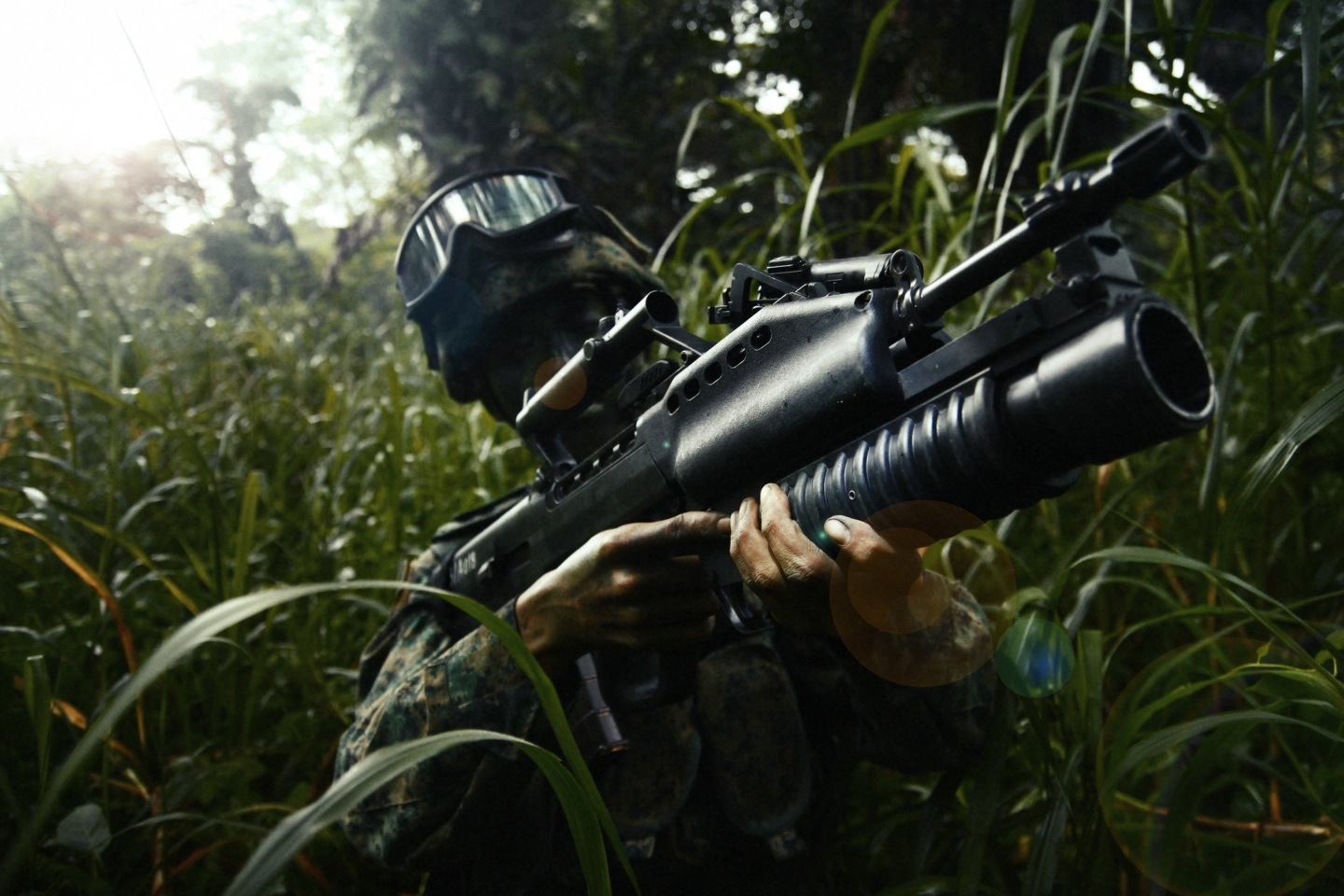 M203 Grenade Launcher